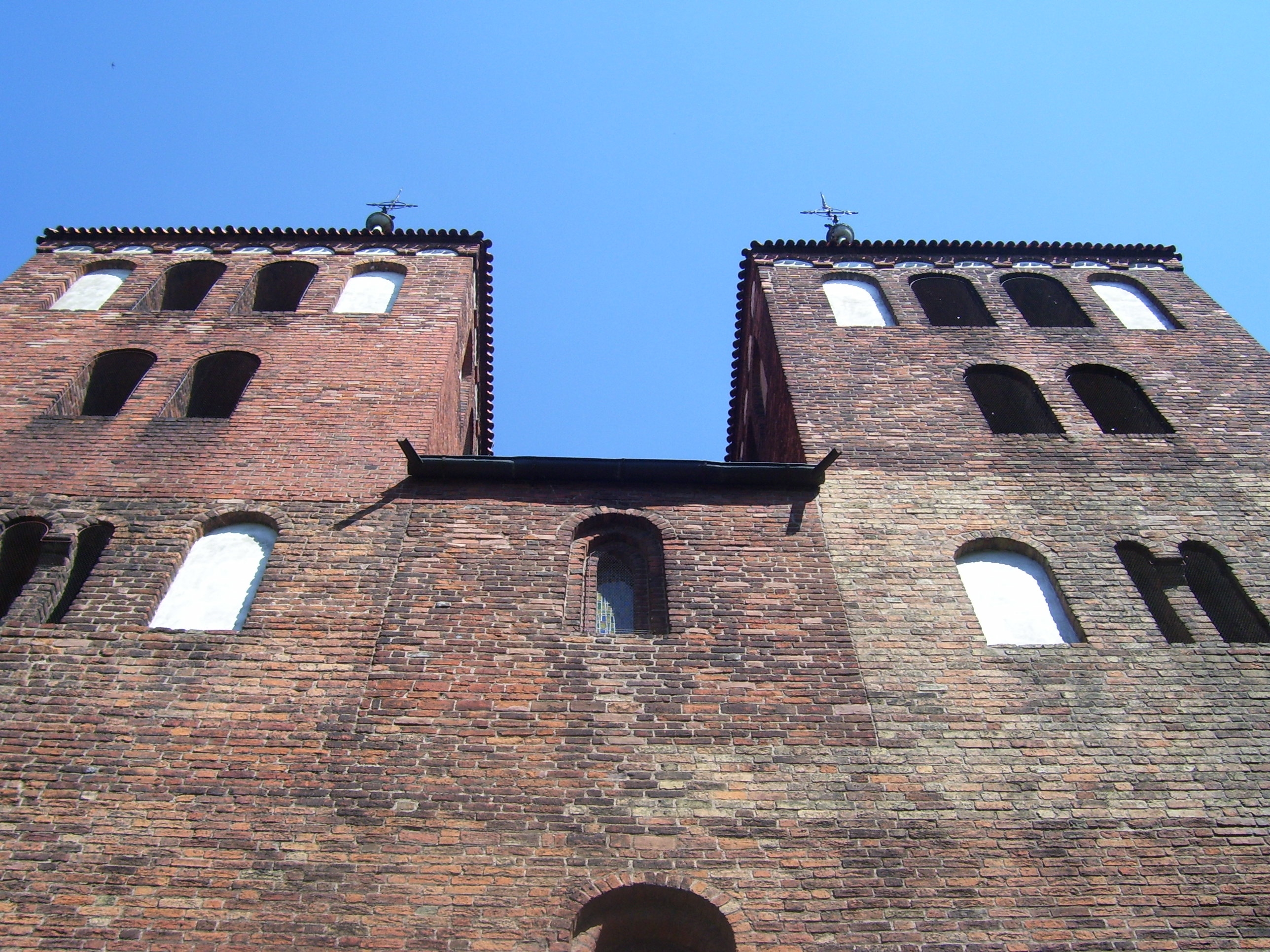 Minor Basilica Of The Blessed Virgin Mary in Inowrocław, PL. View from the west side. Front.